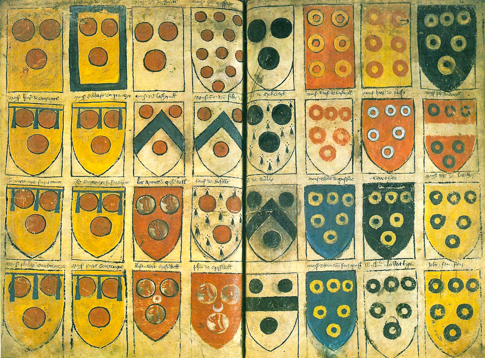 William Jenyns' Ordinary, c. 1360, London, Society of Antiquaries Ms.664/9 roll 26, 25v/26r, nos. 765–796 (ed. Steen Clemmensen) The second manuscript, London, Society of Antiquaries, Ms.664/9 roll 26 fo.1r-49r, is a Hatton-Dugdale facsimile, omitting ff.7-8 and has many unfinished and confounded legends, but otherwise excellent concordance with the principal manuscript. Page spread showing roundels and annulets, the latter including arms of Westmoreland families composed of annulets derived form their Vipont overlords, whose arms are shown on a banner rather than a shield Arms. The left-most two columns show the arms of Courtenay, Earls of Devon and junior branches. The manuscript is now dated to c. 1360, with additions made in c.1380: see Fox, Paul A. (2009). "Fourteenth-century ordinaries of arms: Part 2: William Jenyns' Ordinary". Coat of Arms 5: 55–64.